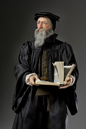 Historical Mixed Media Figure of John Calvin produced by artist/historian George S. Stuart and photographed by Peter d'Aprix. This image, from the George S. Stuart Gallery of Historical Figures archive ( is provided for all uses with appropriate attribution. Any derivatives must be shared in the same manner. Contributor mharrsch is webmaster for the gallery site.